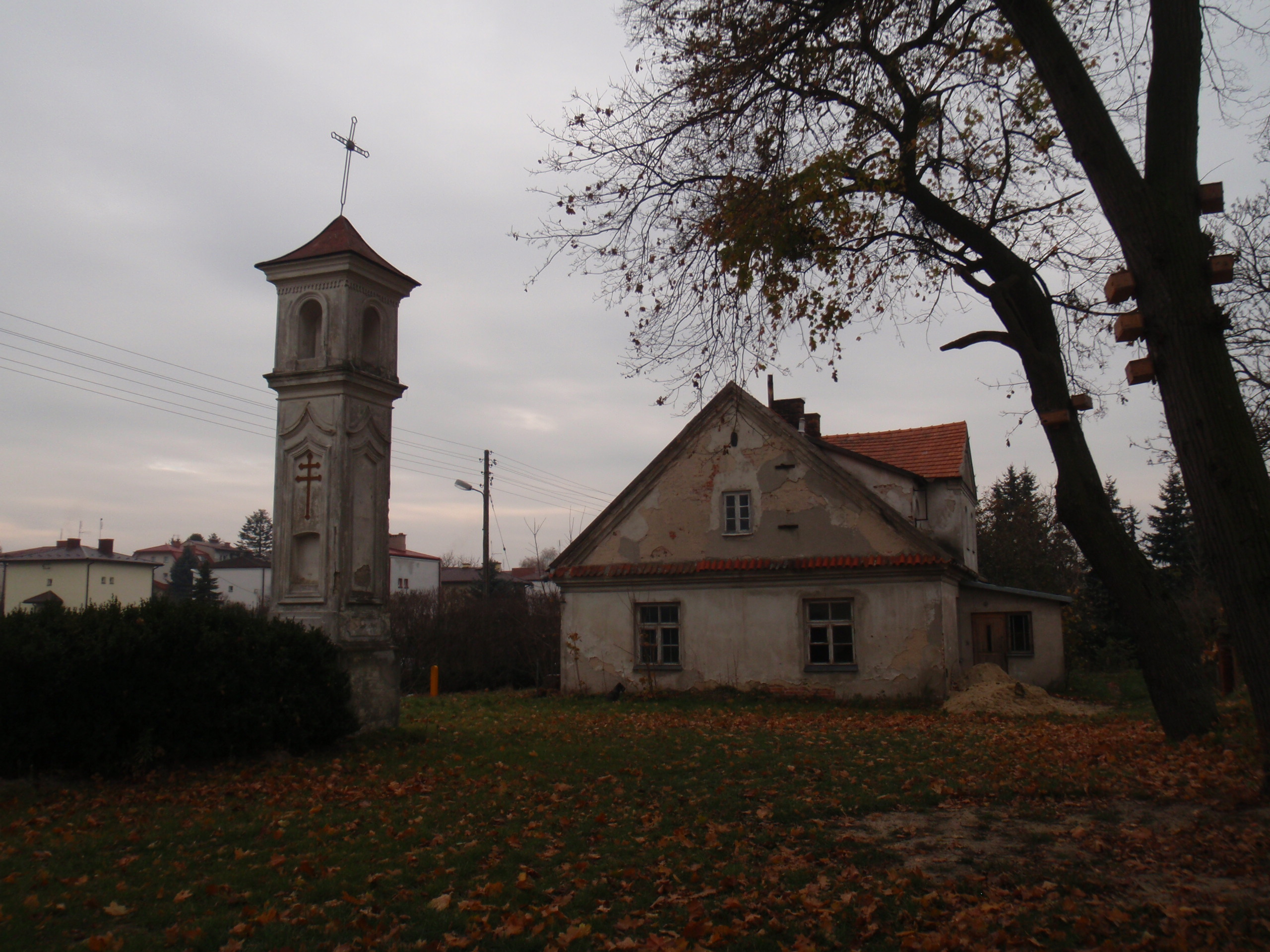 Complex of the church of Saint Anne in Końskowola - view on shrine and old hospital